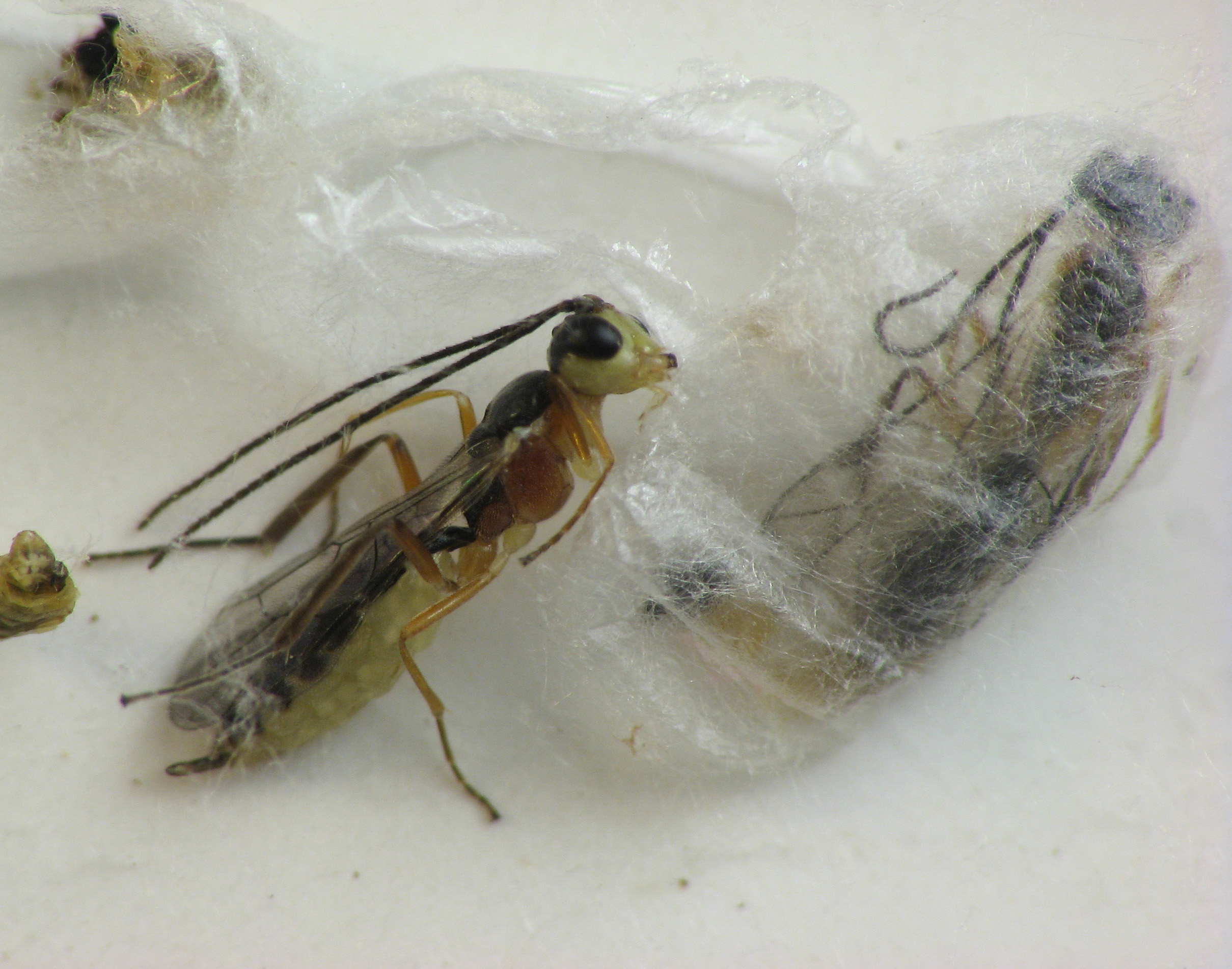 Ichneumonid wasp, Hercus fontinalis, adult eclosing from cocoon. Size: ~ 4-5 mm. Pennypack Restoration Trust, Montgomery County, Pennsylvania, USA.